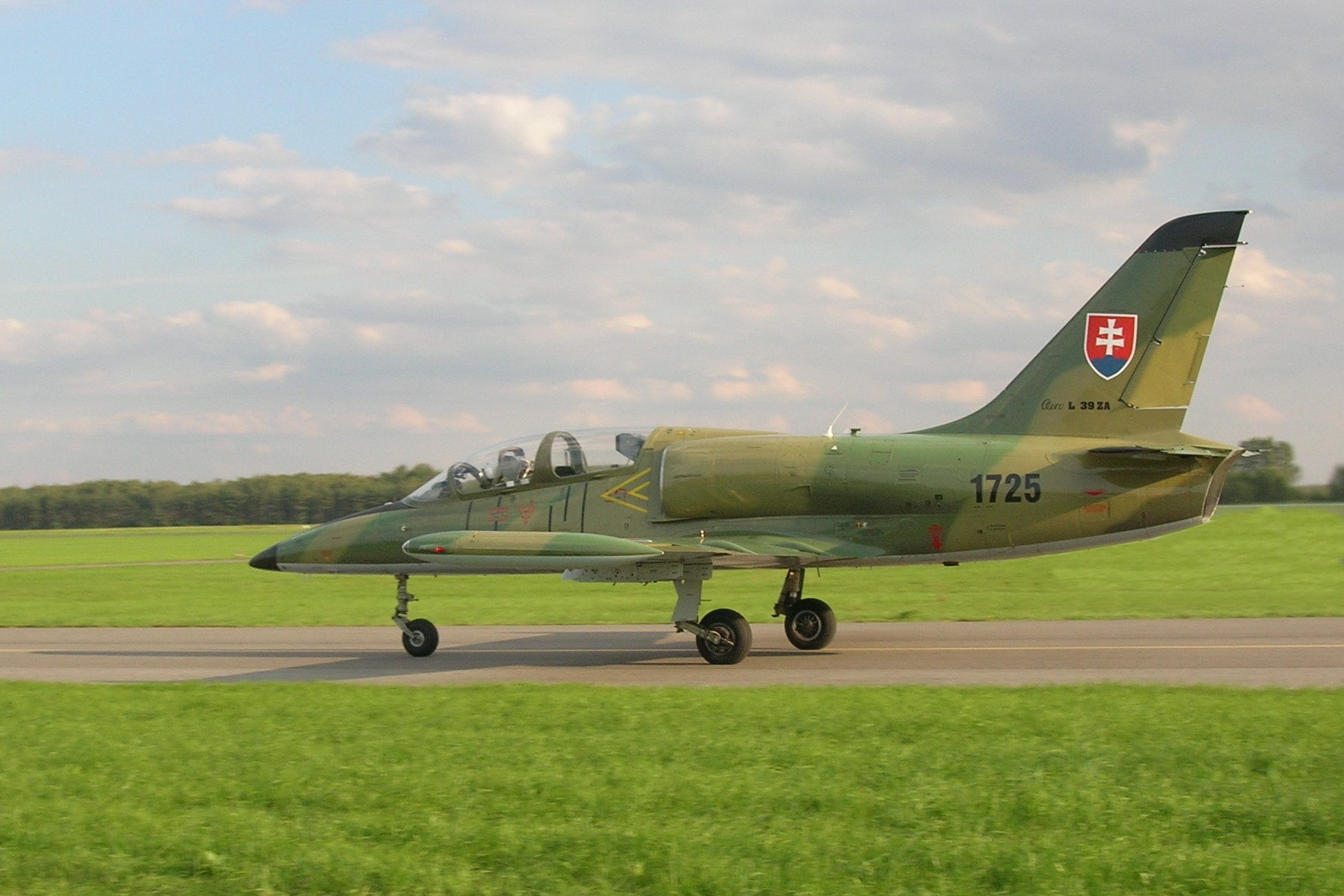 Aero L-39 Albatros, during Air Show in Radom, Poland.